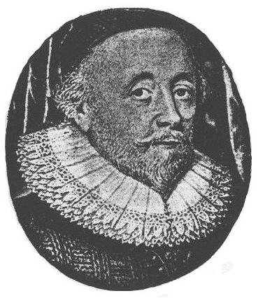 Baptist Hicks, 1st Viscount Campden